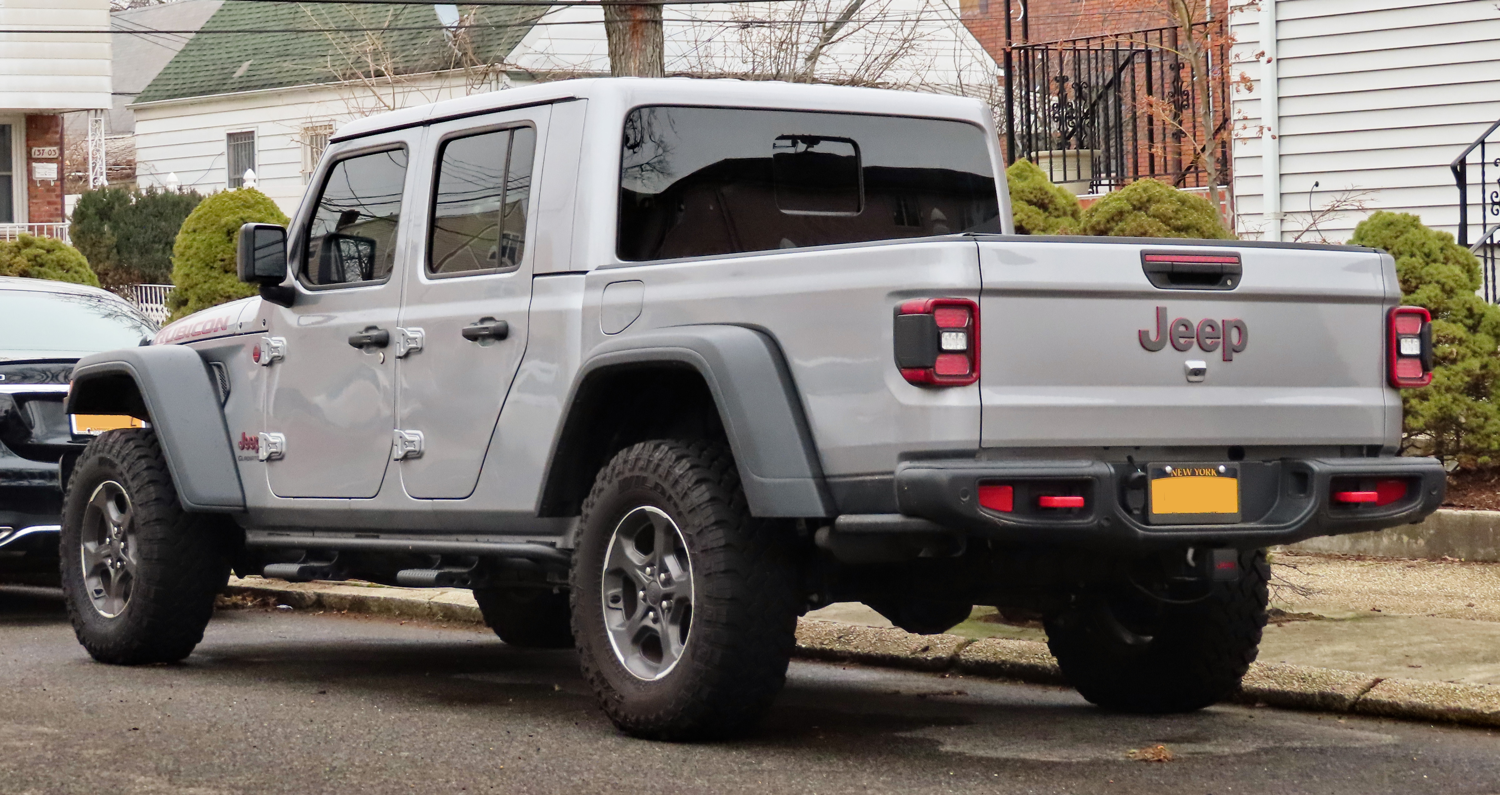 A 2020 Jeep Gladiator Rubicon photographed in Flushing, Queens, Queens, New York, USA